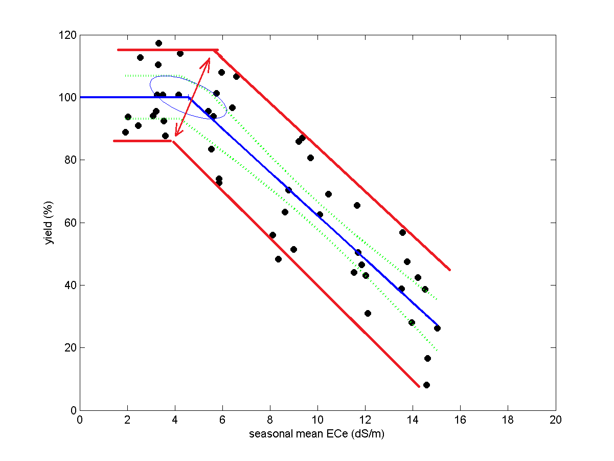 Yield of white cabbage versus soil salinity